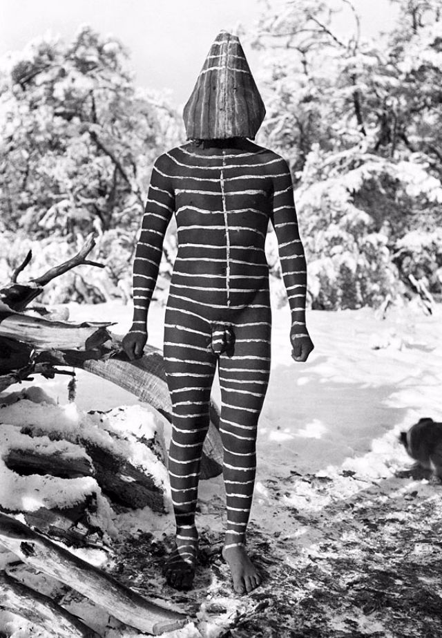 Rito de iniciacion